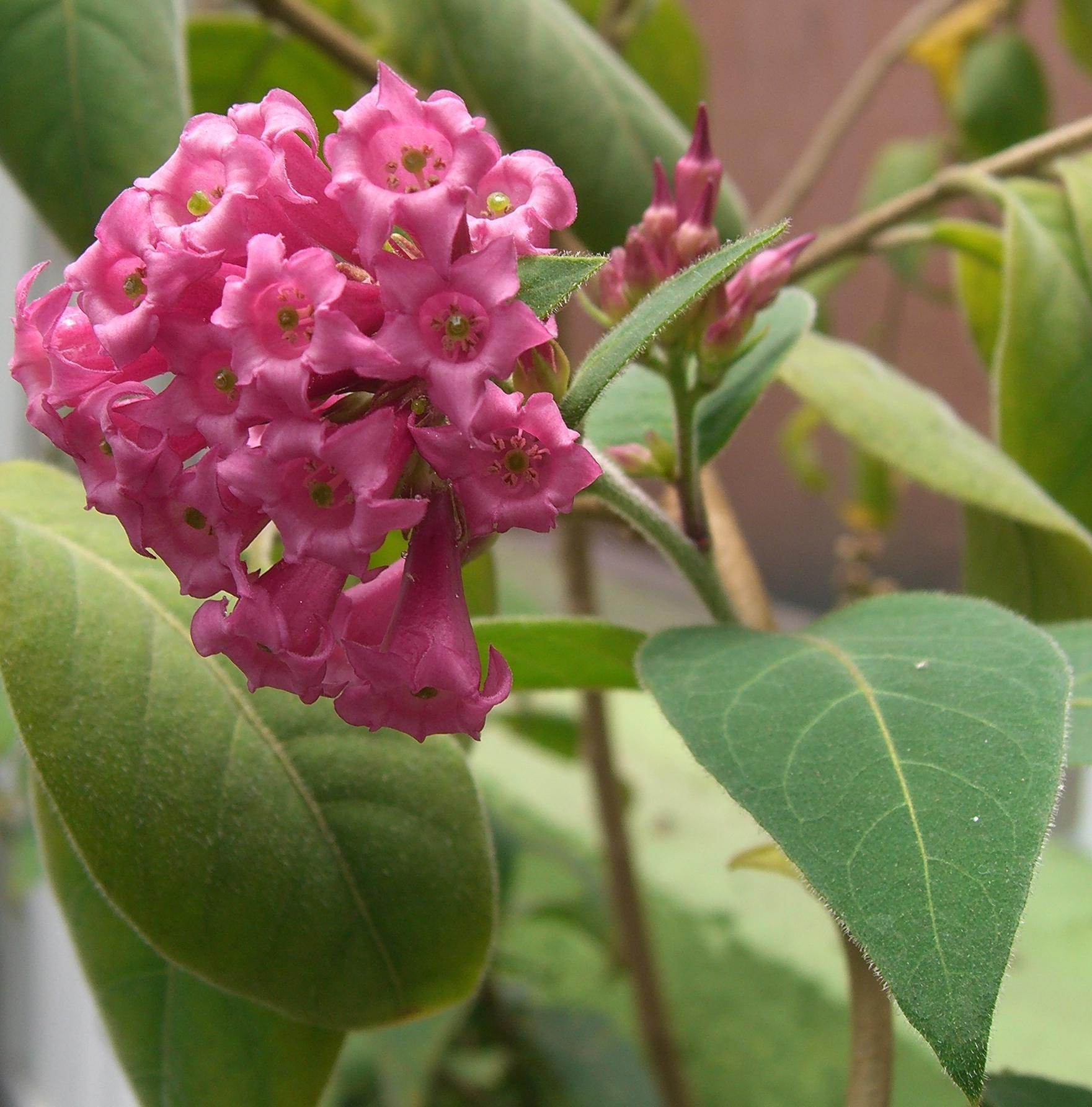 Please report references to .